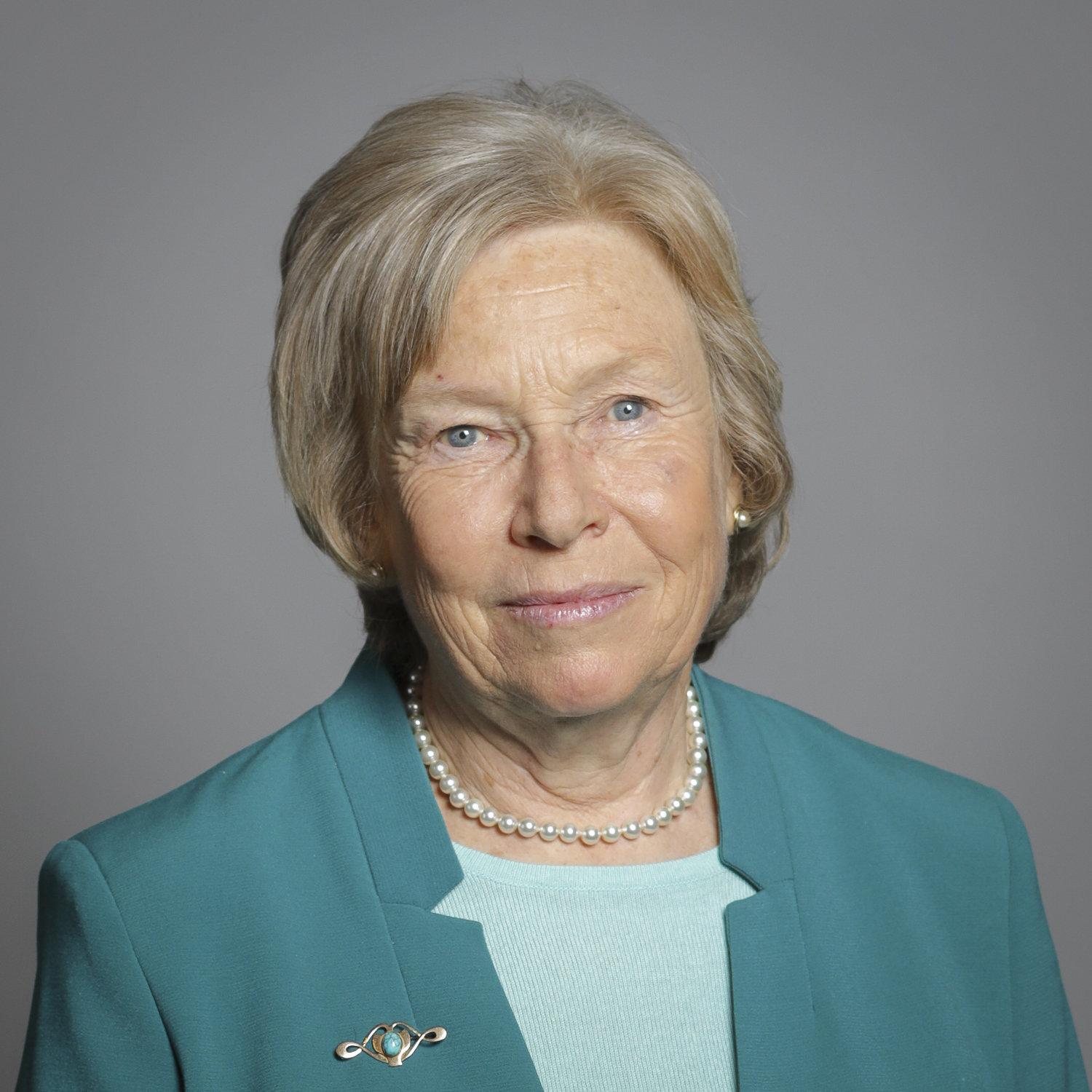 Official portrait of Baroness Quin 1×1 portrait of Baroness Quin